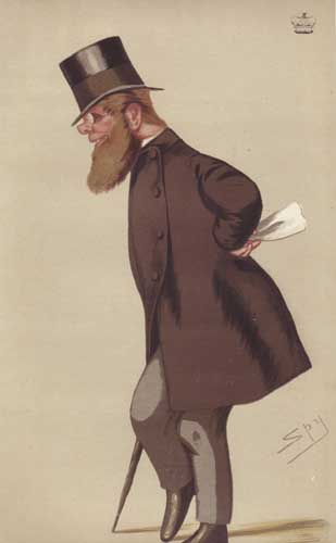 William Brodrick, 8th Viscount Midleton, as drawn in Vanity Fair, title 'Steward'